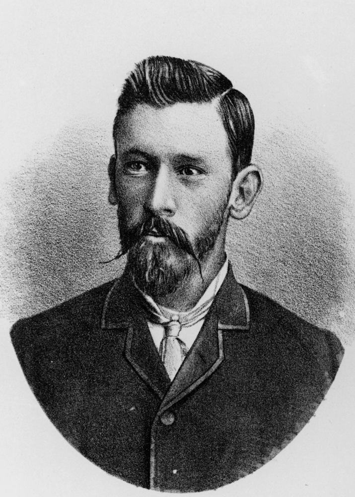 William Stephens, ca. 1889 He was employed in the mercantile office for three years; was manager of his father’s estate; Director of the Imperial Deposit Bank, Brisbane Milling Co., Kingston Butter Co., South Queensland Co-operative Dairy Co., and was proprietor of Marrimac dairy farms near Nerang. He was President of the Metropolitan Transit Board; Vice-President of the National Agricultural and Industrial Association and the Nerang Agricultural and Pastoral Association. He was also a Justice of the Peace.